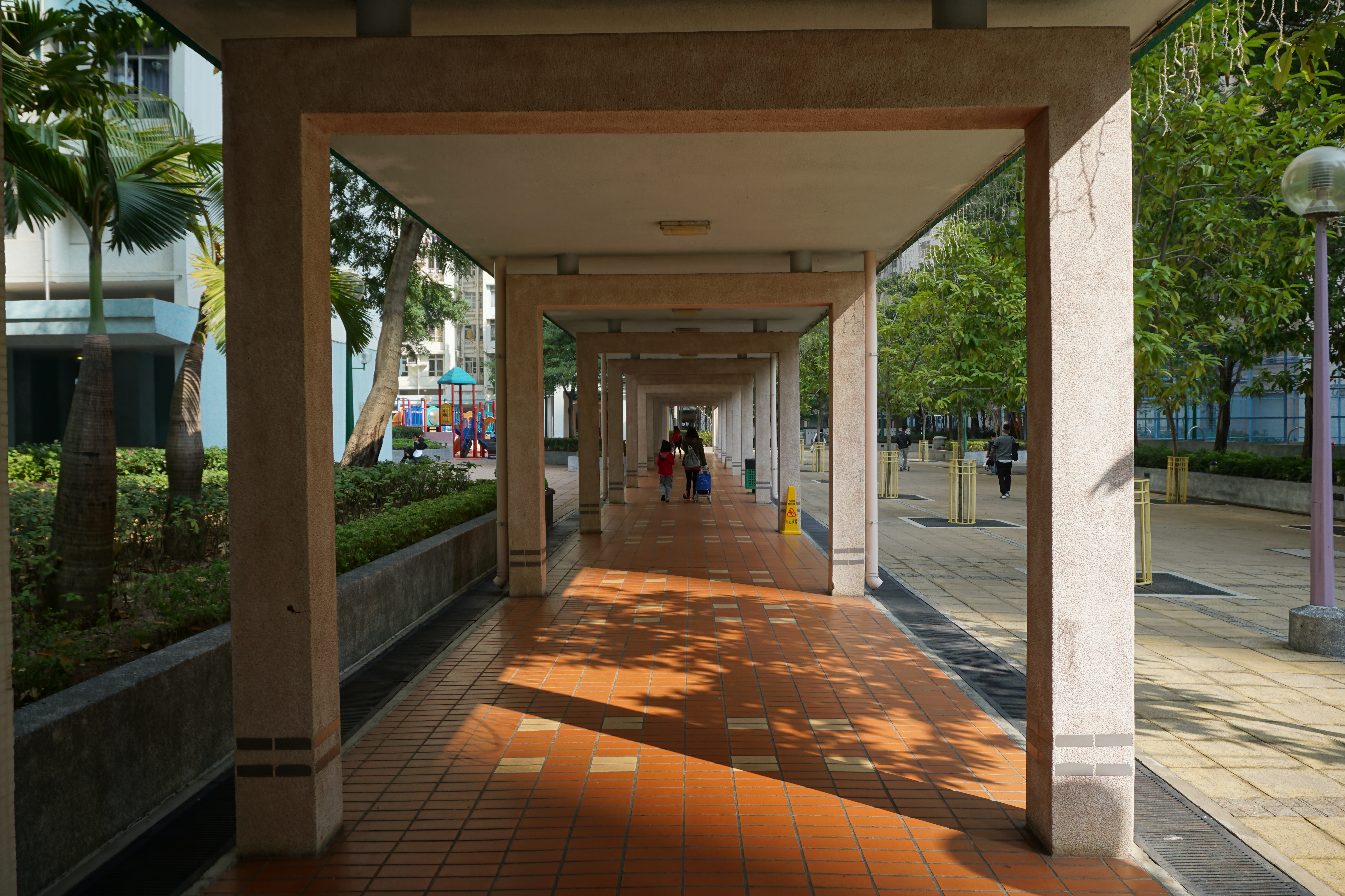 Tin Chung Court in Tin Shui Wai, Hong Kong.